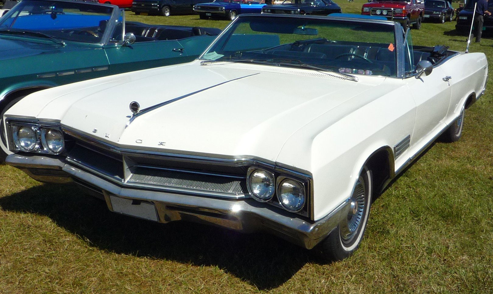 White 1966 Buick Wildcat Custom convertible, 401ci V8 with 325hp, at the 2008 Power BigMeet in Sweden.